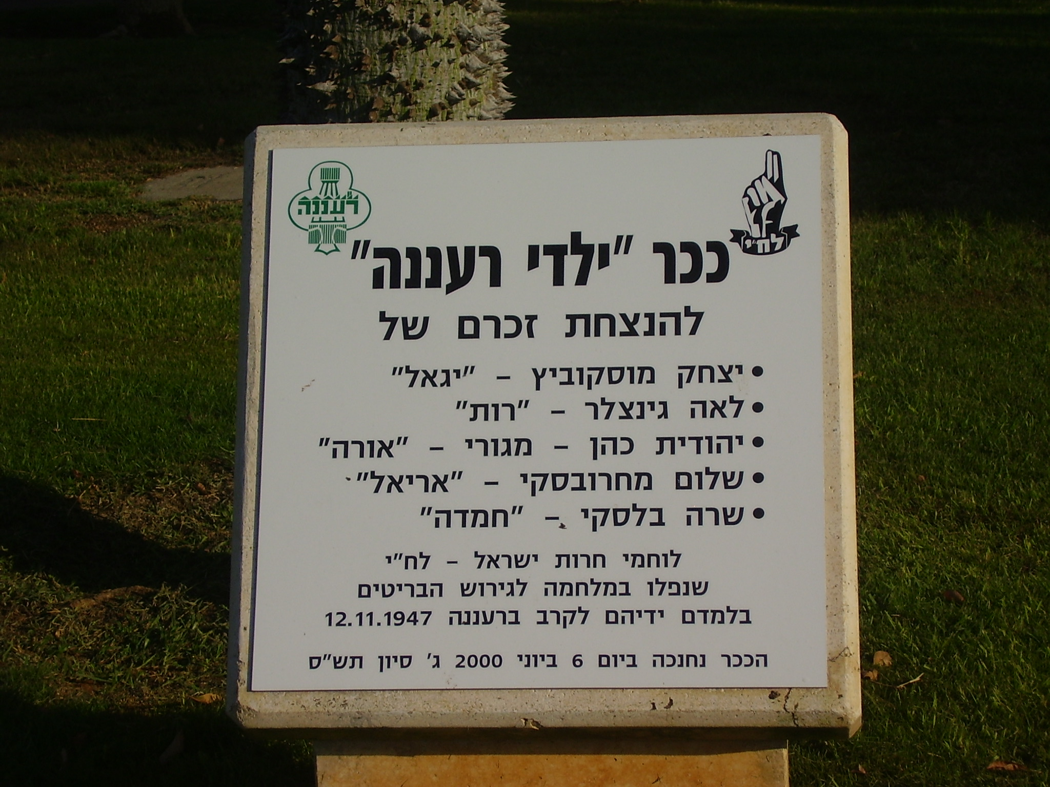 lehi(fighters for freedom of israel) memorial in raanana, israel